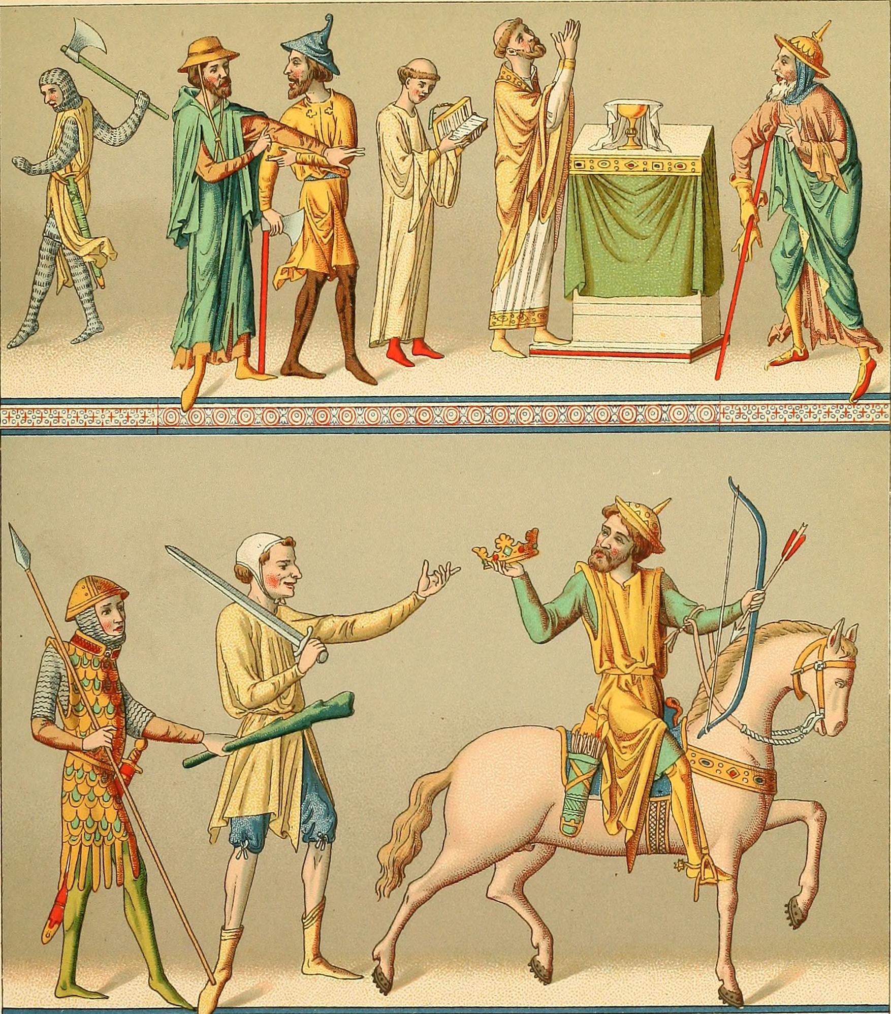 Title: Le costume historique. Cinq cents planches, trois cents en couleurs, or et argent, deux cents en camaieu. Types principaux du vêtement et de la parure, rapprochés de ceux de l'intérieur de l'habitation dans tous les temps et chez tous les peuples, avec de nombreux détails sur le mobilier, les armes, les objets usuels, les moyens de transport, etc Year: 1888 (1880s) Authors: Racinet, A. (Auguste), 1825-1893 Subjects: Costume Costume Publisher: Paris, Firmin-Didot et cie Text Appearing Before Image: nde richesse. A lexamende ceux des manuscrits, les bois semblent couvertsdornements incrustés, sculptés ou peints; les matelassont ornés de galons et de broderies, ainsi que lescouvertures ; ils sont alors généralement accompagnésde courtines suspendues à des traverses ou à des cielsportés sur des colonnes.Le treizième siècle continue la tradition de ce luxe;au quatorzième siècle, les bois de lit prennent moinsdimportance et sont complètement recouverts delarges draperies flottantes, qui en deviennent la déco-ration principale. N 9. Petit vase. — Ce vase est du genre de ceux donton rencontre de nombreuses variétés dans les manus-crits du neuvième siècle, et qui caractérisent les Gallo-Prancs. Leurs formes sont des plus diversifiées; ony reconnaît des buires, des cassolettes, des coque-mars, des cornes à boire, des aiguières. Reproductions daprès Willemiii. — Voir pour le texte Potier et Violht-le-Duc. .IIROPA M; MDDLEAGEs EUROPEMOYEN-AGE eliropamittelalter Text Appearing After Image: Initi. FirminDido-, .^- Paris EUROPE. — MOYEN AGE COSTUMES CIVILS, MILITAIEES ET RELIGIEUX. Provenant dune traduction en français de lApocalypse faite au XIII^ siècle, mais tenuepour une copie dun Mss. du IX^ siècle, présumé de 816. (Bill. nat. de Paris, Ms. n° 7013.) /^